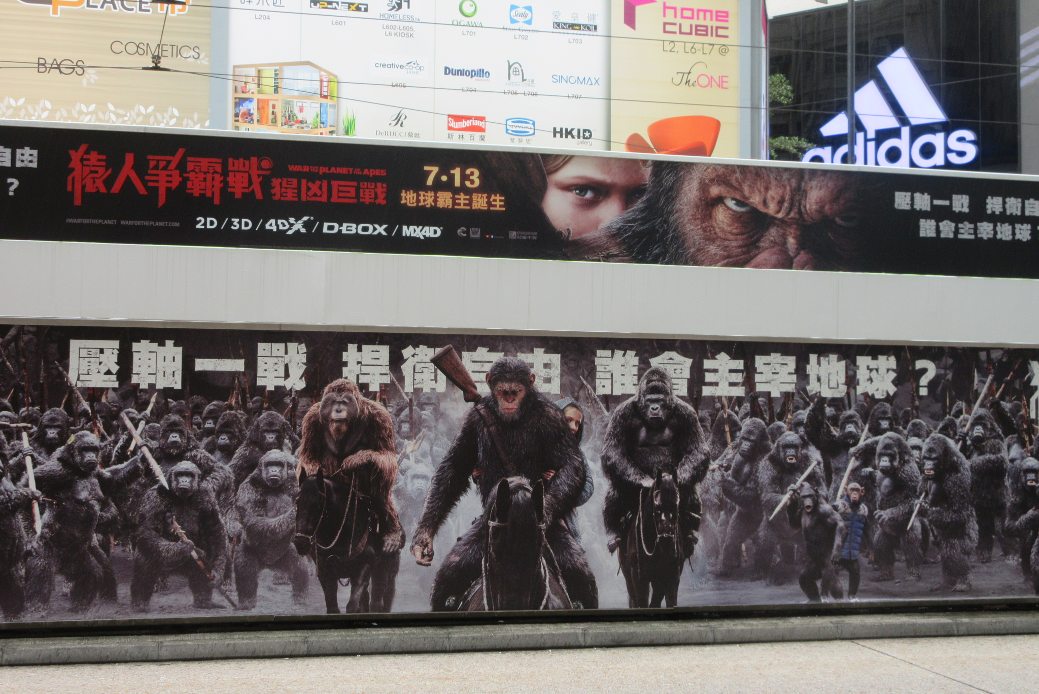 HK CWB 銅鑼灣 Causeway Bay 怡和街 Yee Wo Street tram station outdoor movie ads 猿人爭霸戰 猩凶巨戰 War for the Planet of the Apes July 2017 IX1